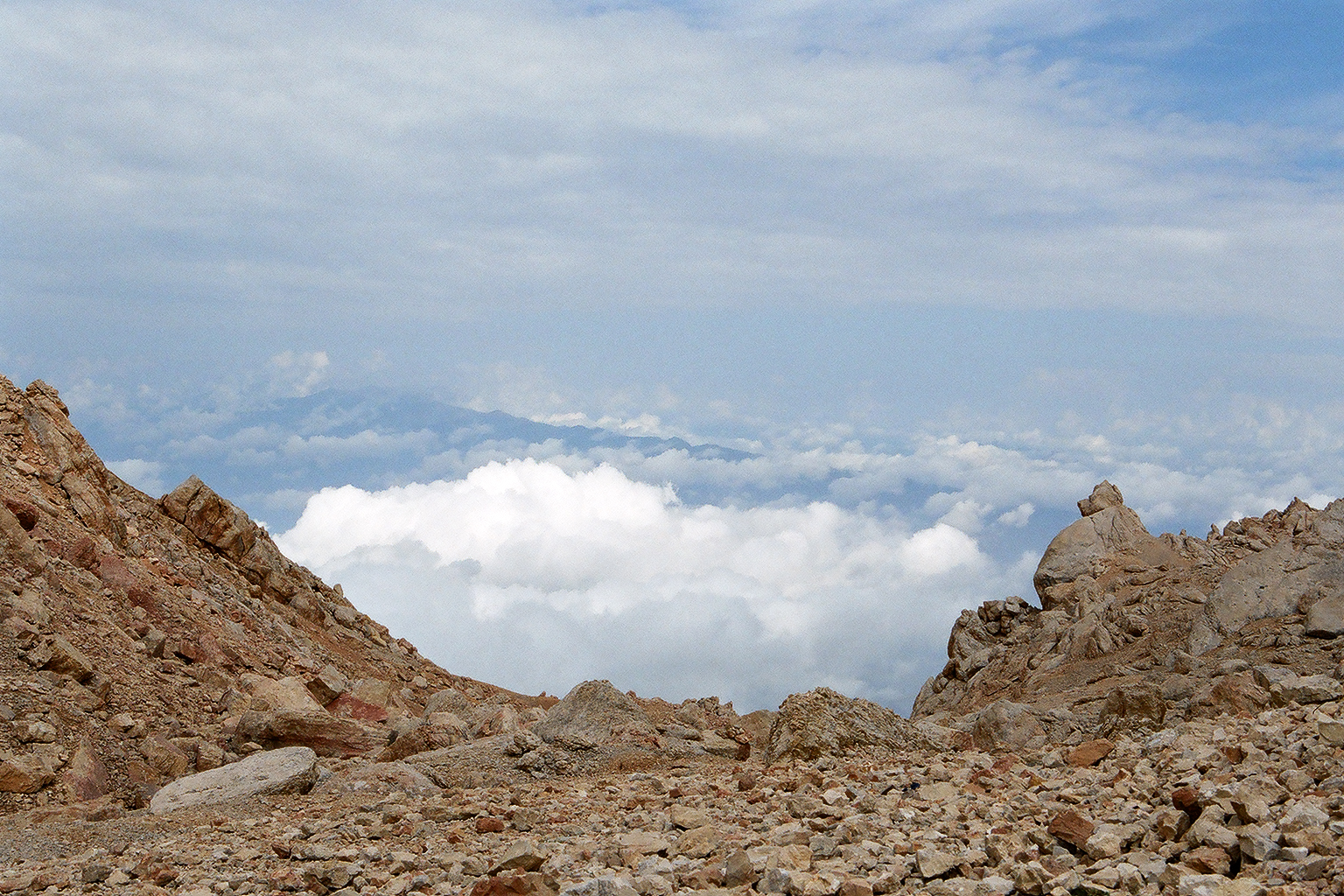 Ахтынский район Дагестана (в горах)